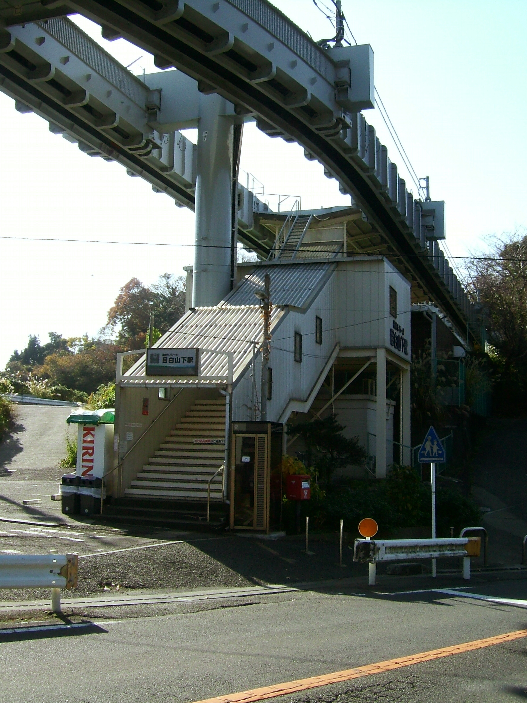 The building of Mejiroyamashita Station on the Shōnan Monorail Line in Fujisawa city, Kanagawa prefecture, Japan